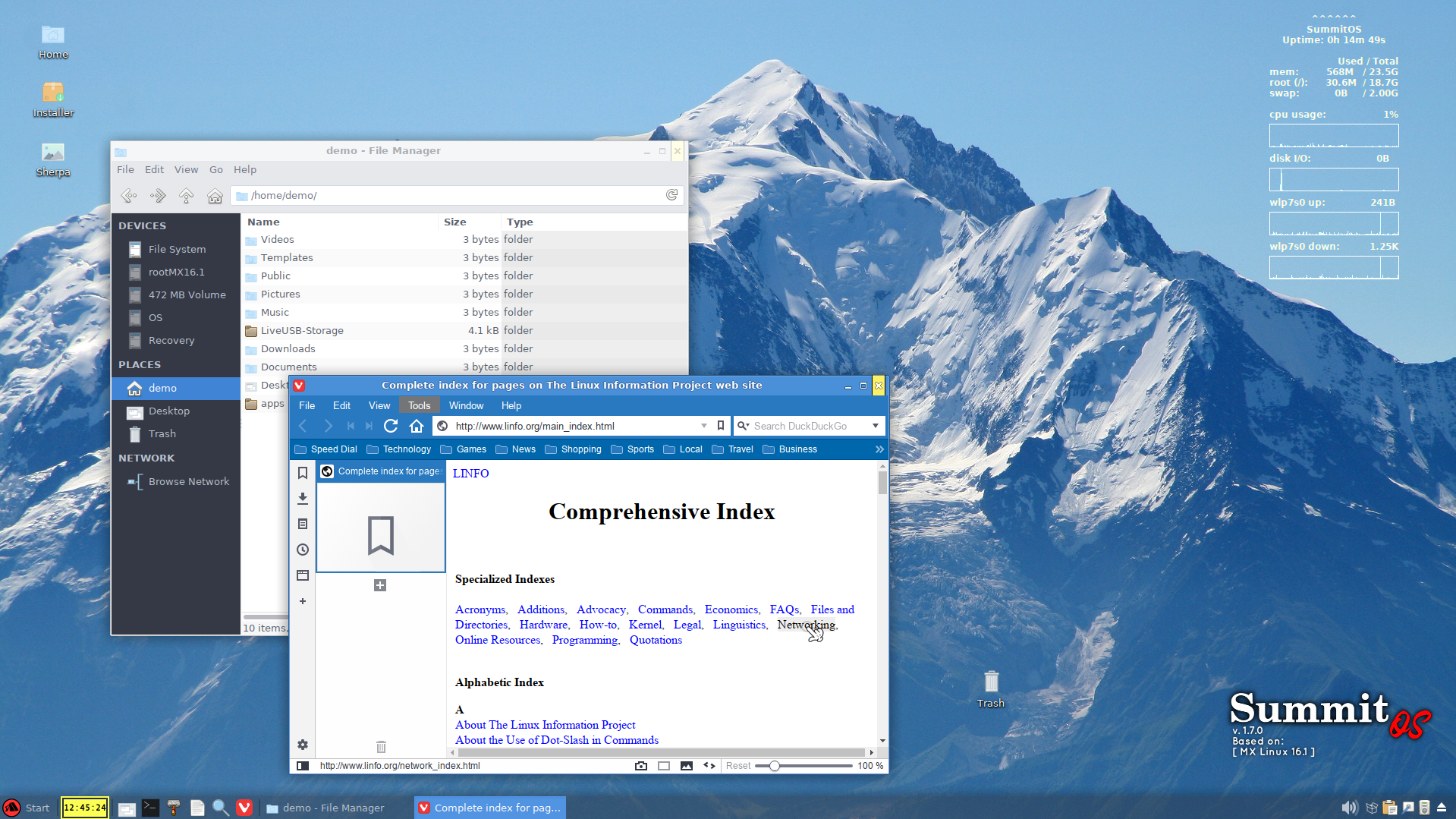 The first thing you see when booting the SummitOS LIVE iso.